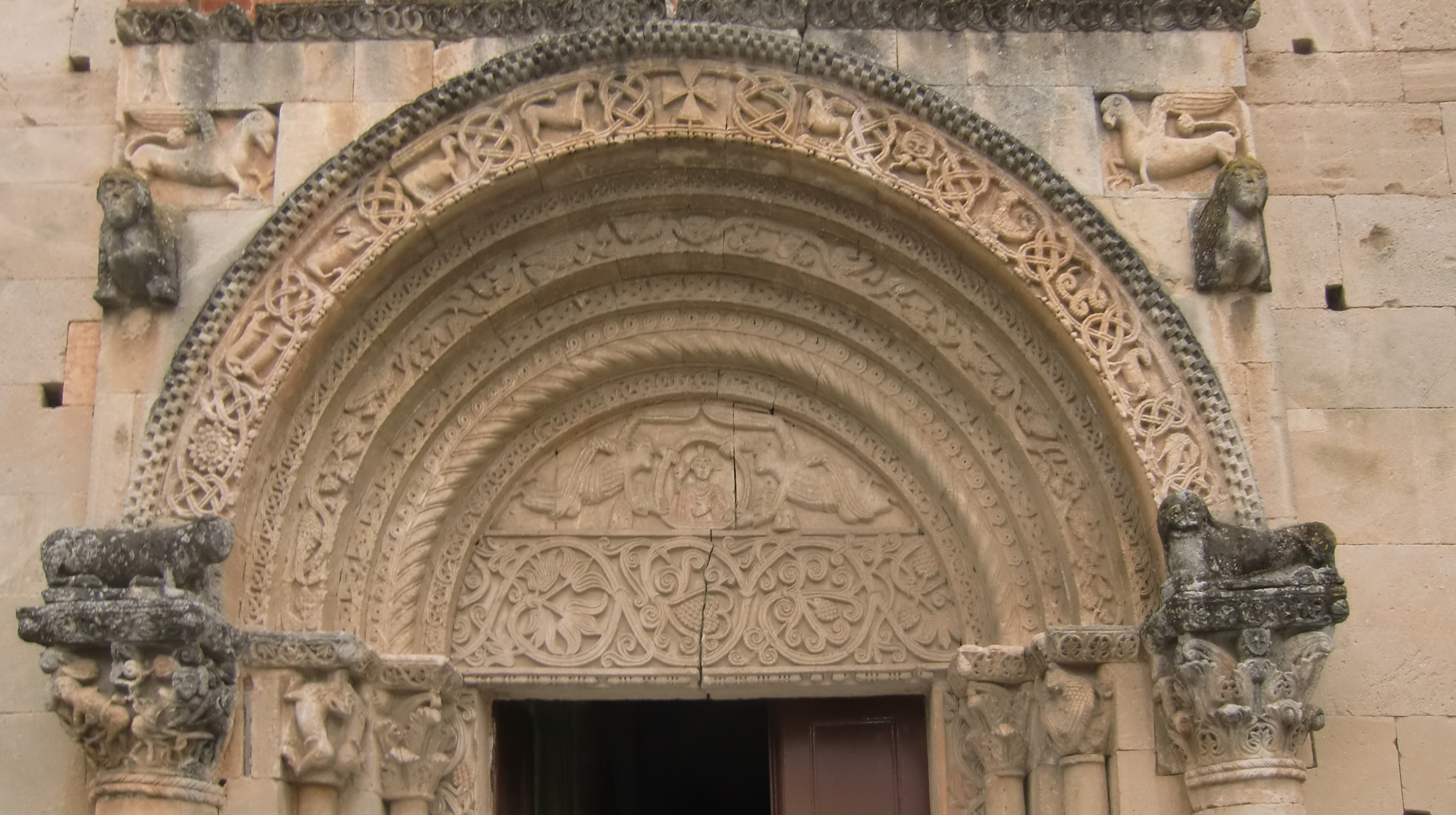 Abbey of Santa Fede in Cavagnolo (TO), Piedmont, Italy, XII century, church facade, lunette above the portal